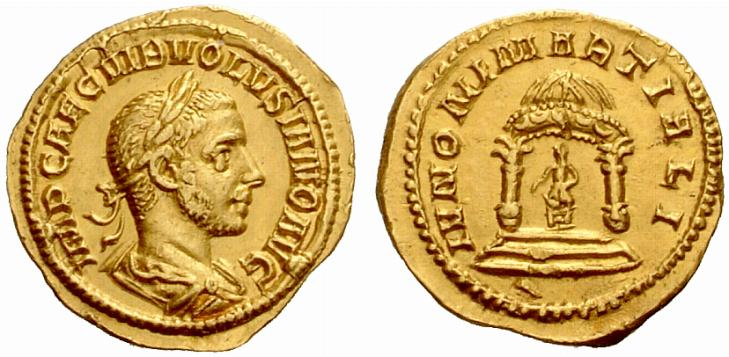 Volusianus, 251-253, Aureus 251-253, AV 3.50 g. IMP CAE C VIB VOLVSIANO AVG Laureate, draped and cuirassed bust r. Rev. IVNONI MARTIALI Juno seated facing in round distyle temple; below, peacock. Calicó 3358 (this coin). C –. RIC 156.